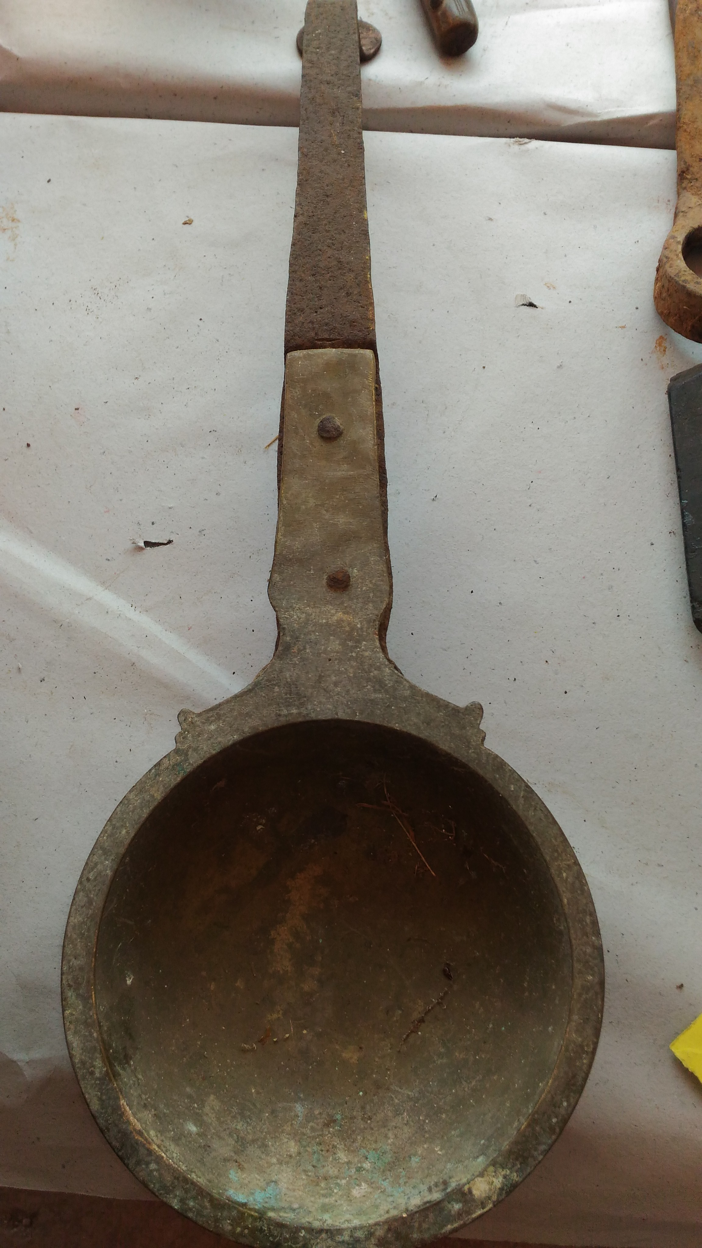 A vessel used in kitchen